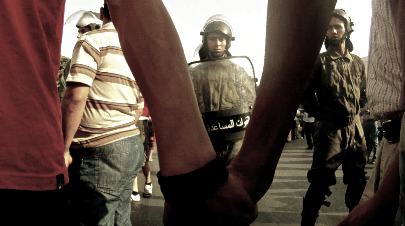 Still frame from Nadir Bouhmouch's documentary "My Makhzen and Me" (2011)